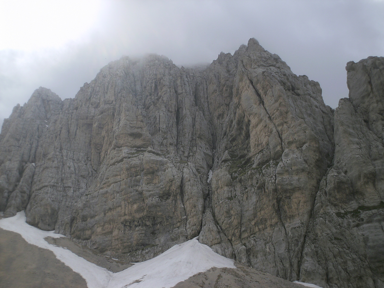 Monte Vettore Devil's peek